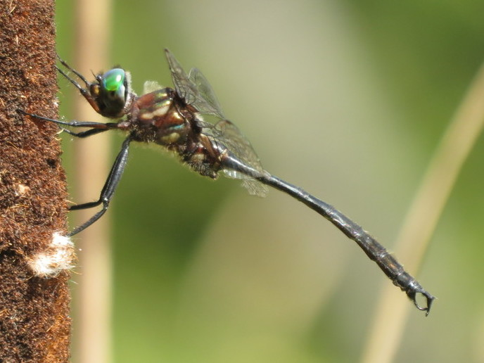 Clamp-tipped emerald (Somatochlora tenebrosa), Simcoe County, Ontario, Canada